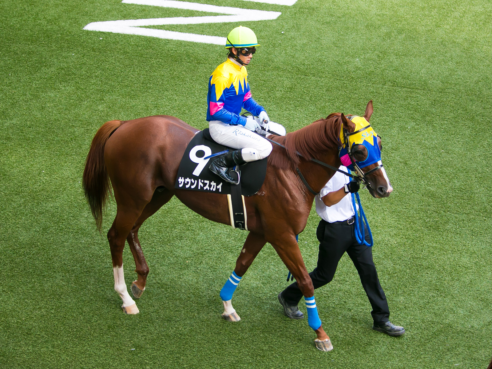 Sound Sky (Racehorse of Japan).